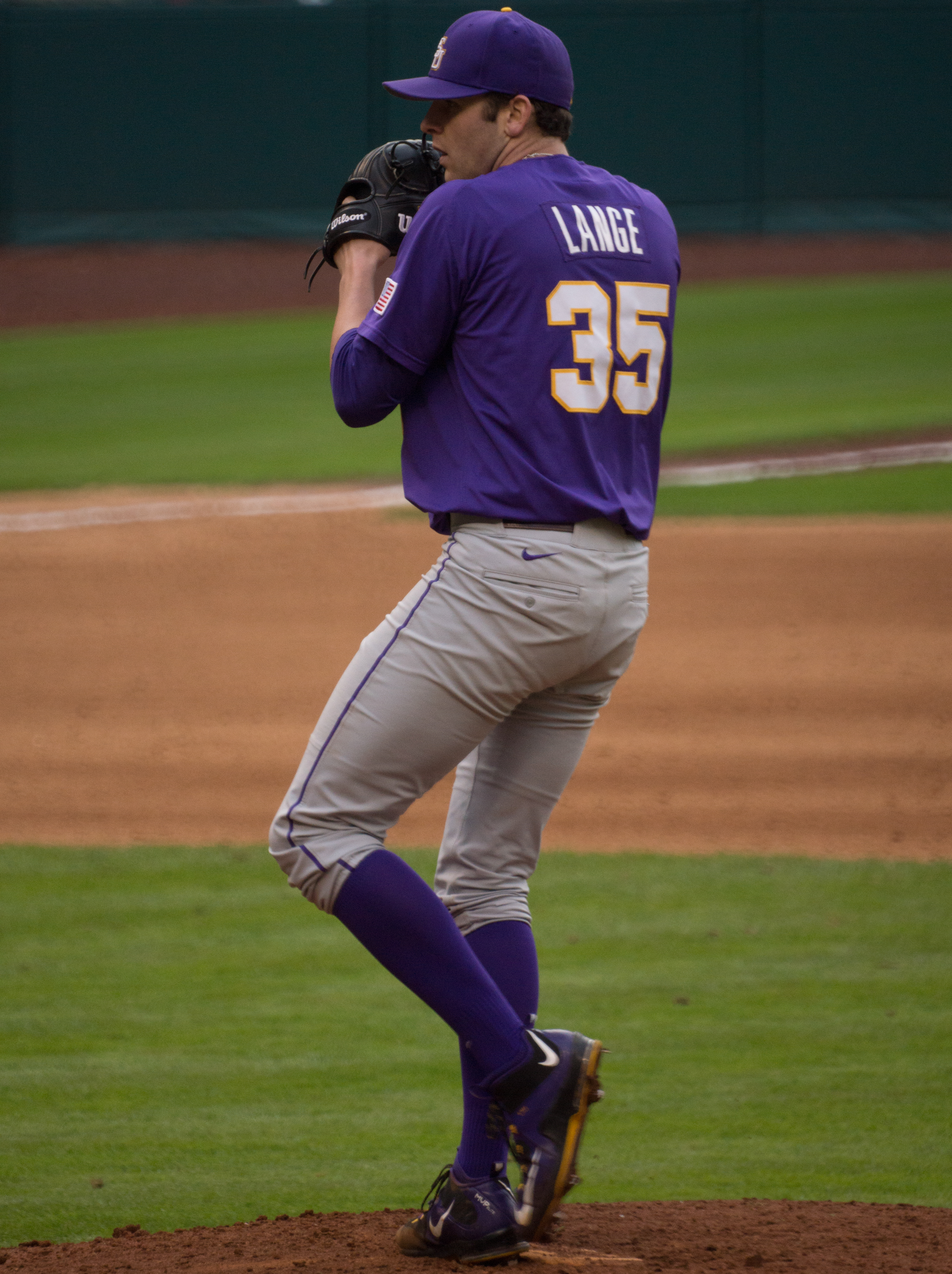 Alex Lange on the mound for the LSU Tigers during the 2015 Houston Astros College Classic